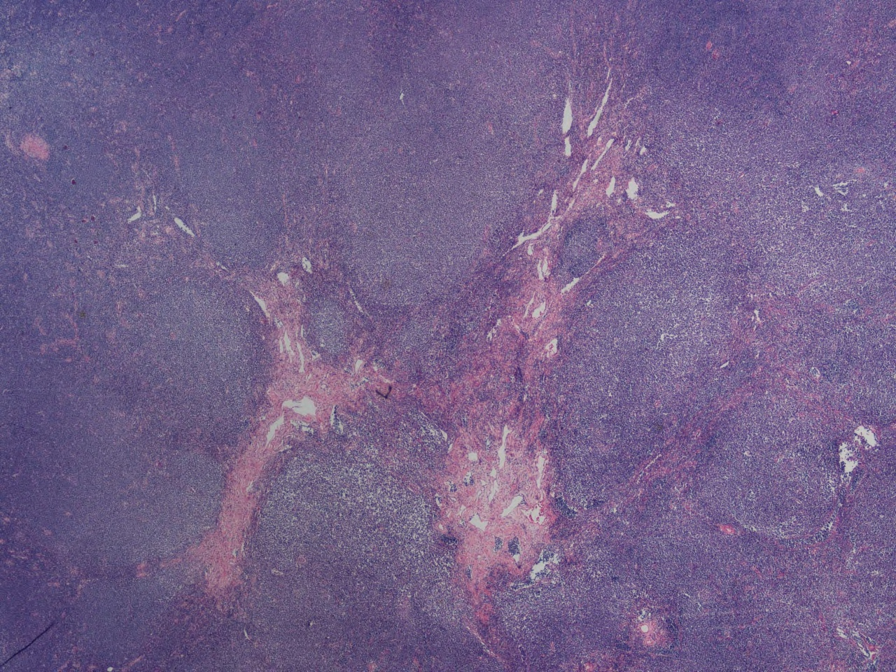 Lymph node with mantle cell lymphoma. By immunohistochemistry the lymphoma cells expressed CD5, CD20 and Cyclin D1. Author: Gabriel Caponetti, MD